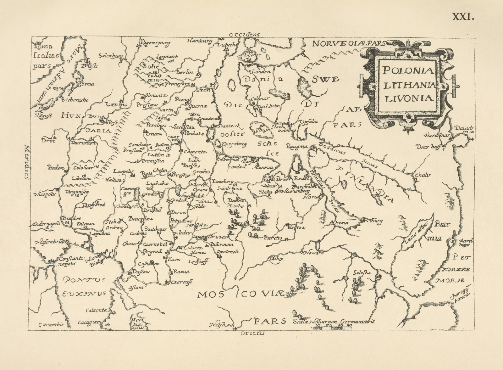 Ortelius’ map of Polonia, Lithania, Livonia, published in his 1601 edition of the "Epitome Theatri Orteliani, Praecipuarum Orbis Regionum delineationes... Antverpiae: apud Ioannem Bapt.Vrientium", mm 172x120.